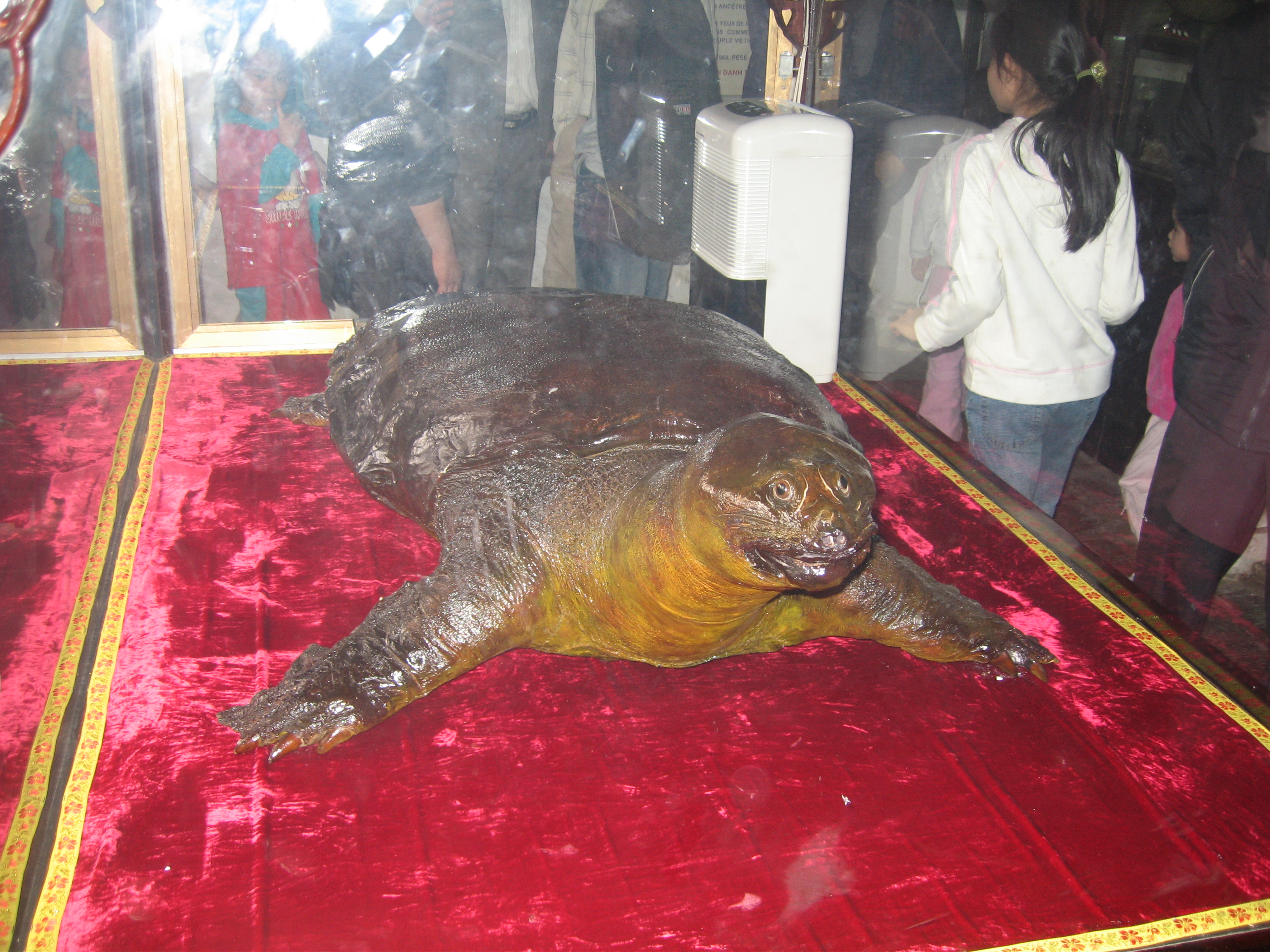 Tortoise Hồ Gươm